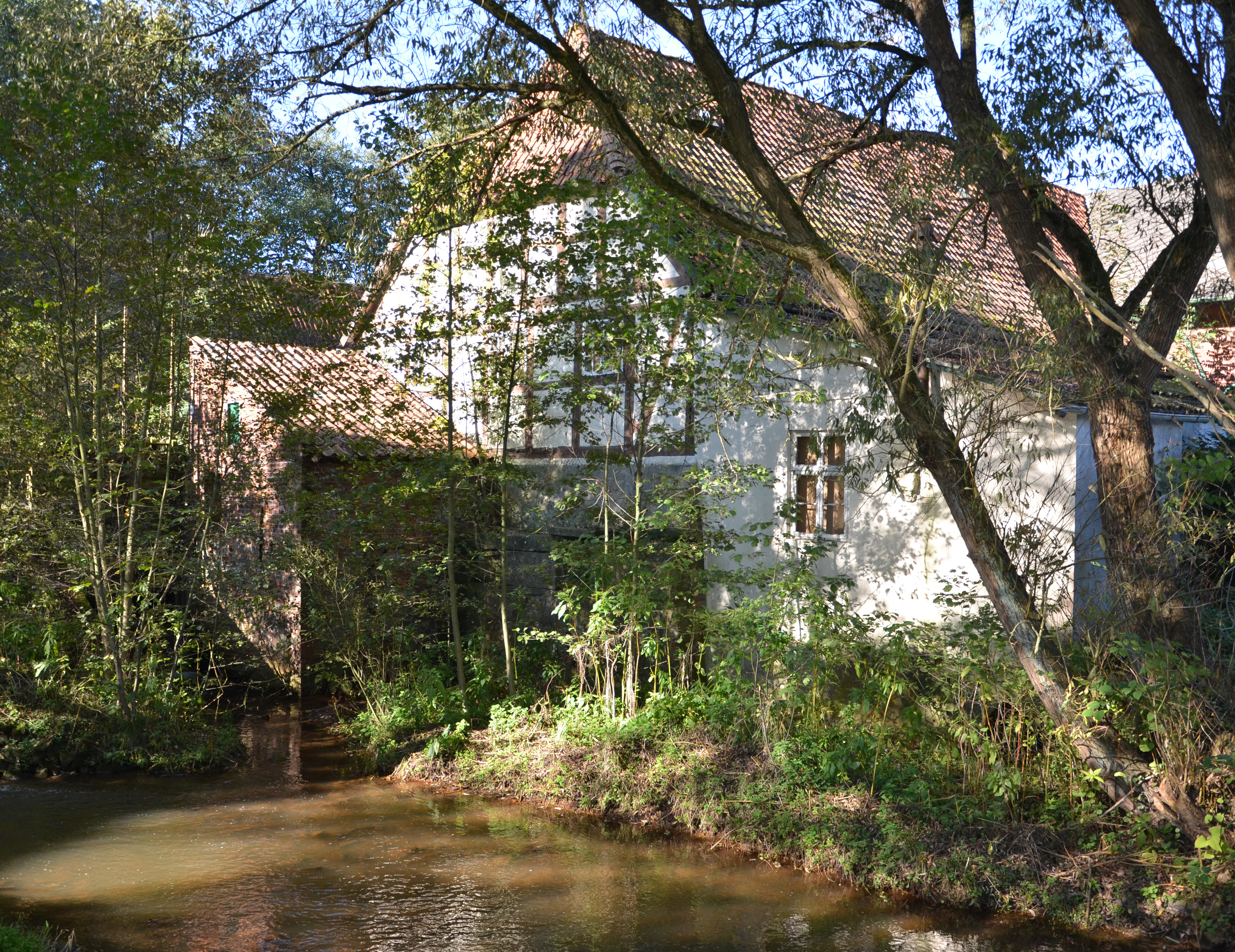 Cultural heritage monument in Bassum Neubruchhausen Watermill